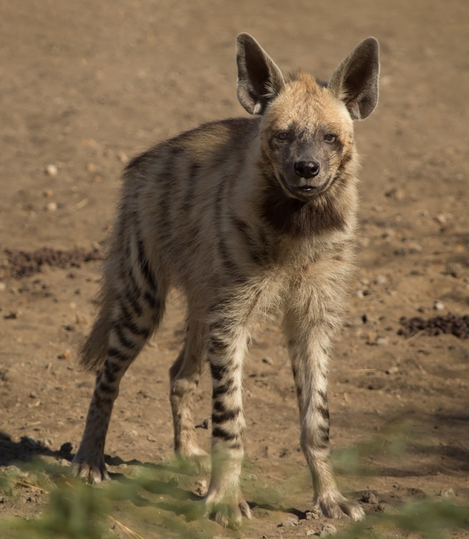 An individual at Blackbuck National Park, Velavadar